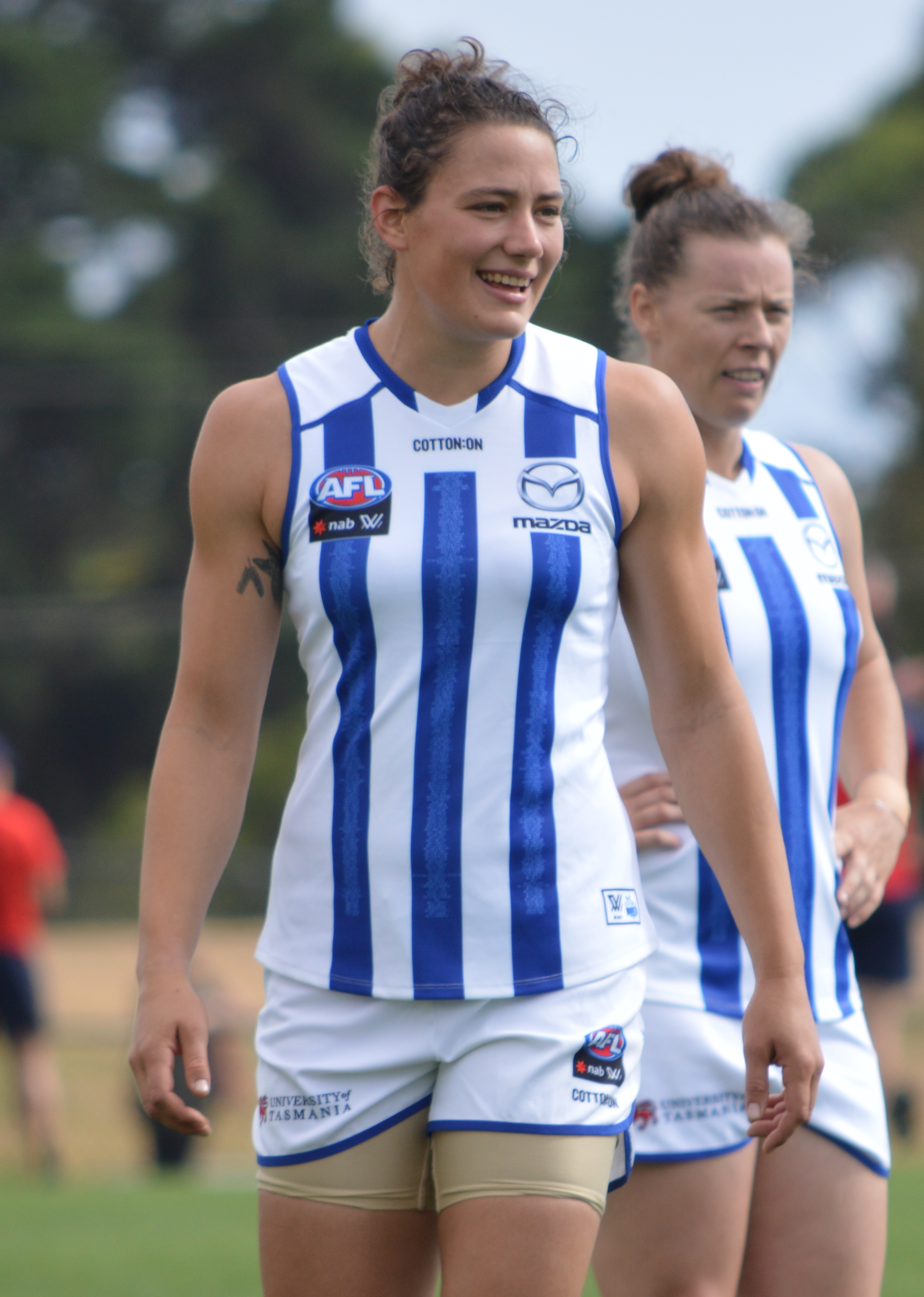 Kate Gillespie-Jones with North Melbourne during a pre-season match in January 2019.